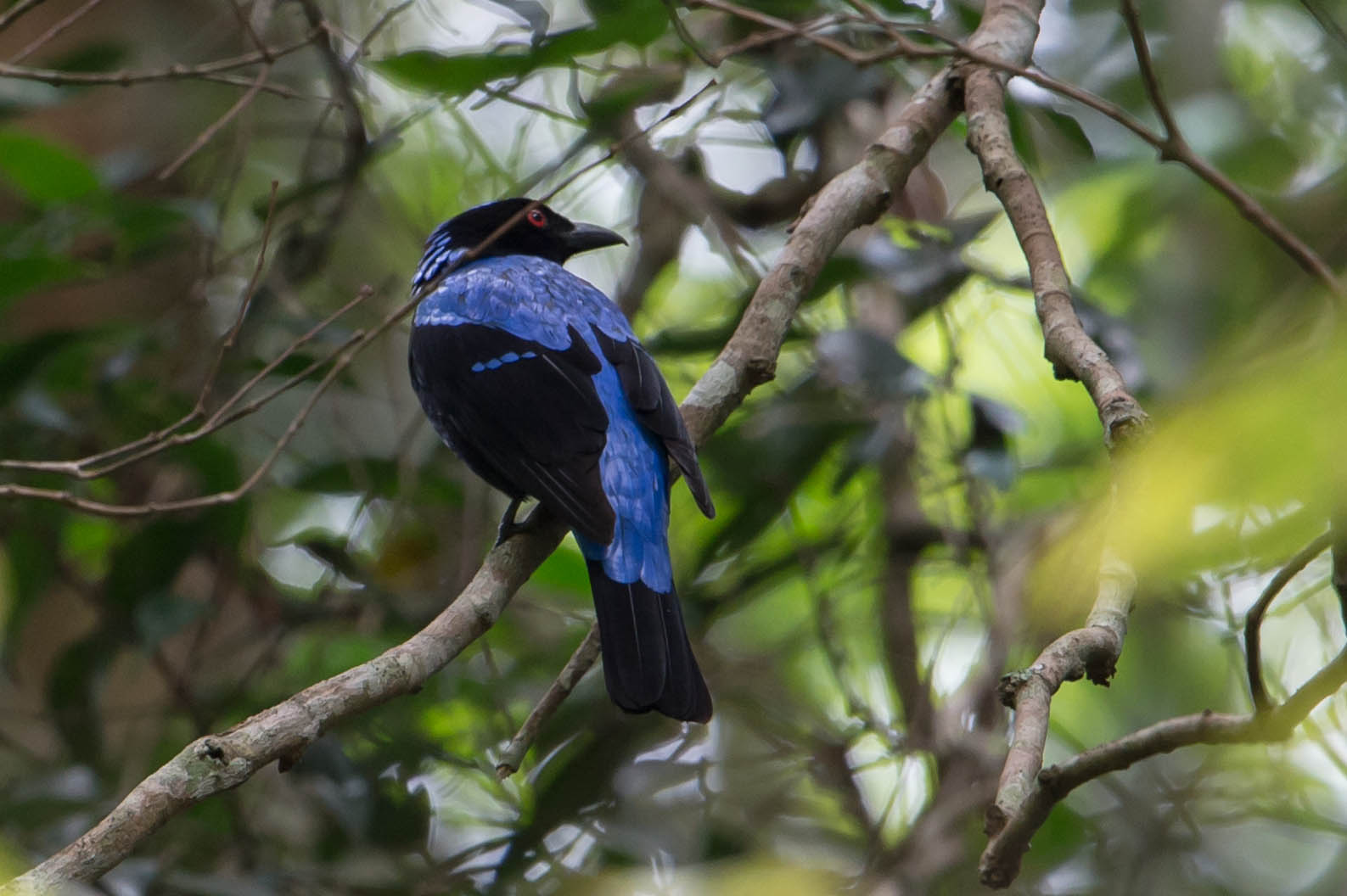 Asian Fairy-bluebird (Irena puella) at Kaeng Krachan, Phetchaburi, Thailand